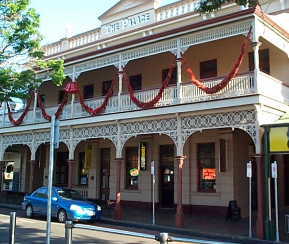 Taken by Michael Gardner 2006